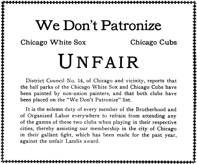 Advertisement by the painter's union urging a boycott of both Chicago baseball teams and opposing Judge Landis's building trade award